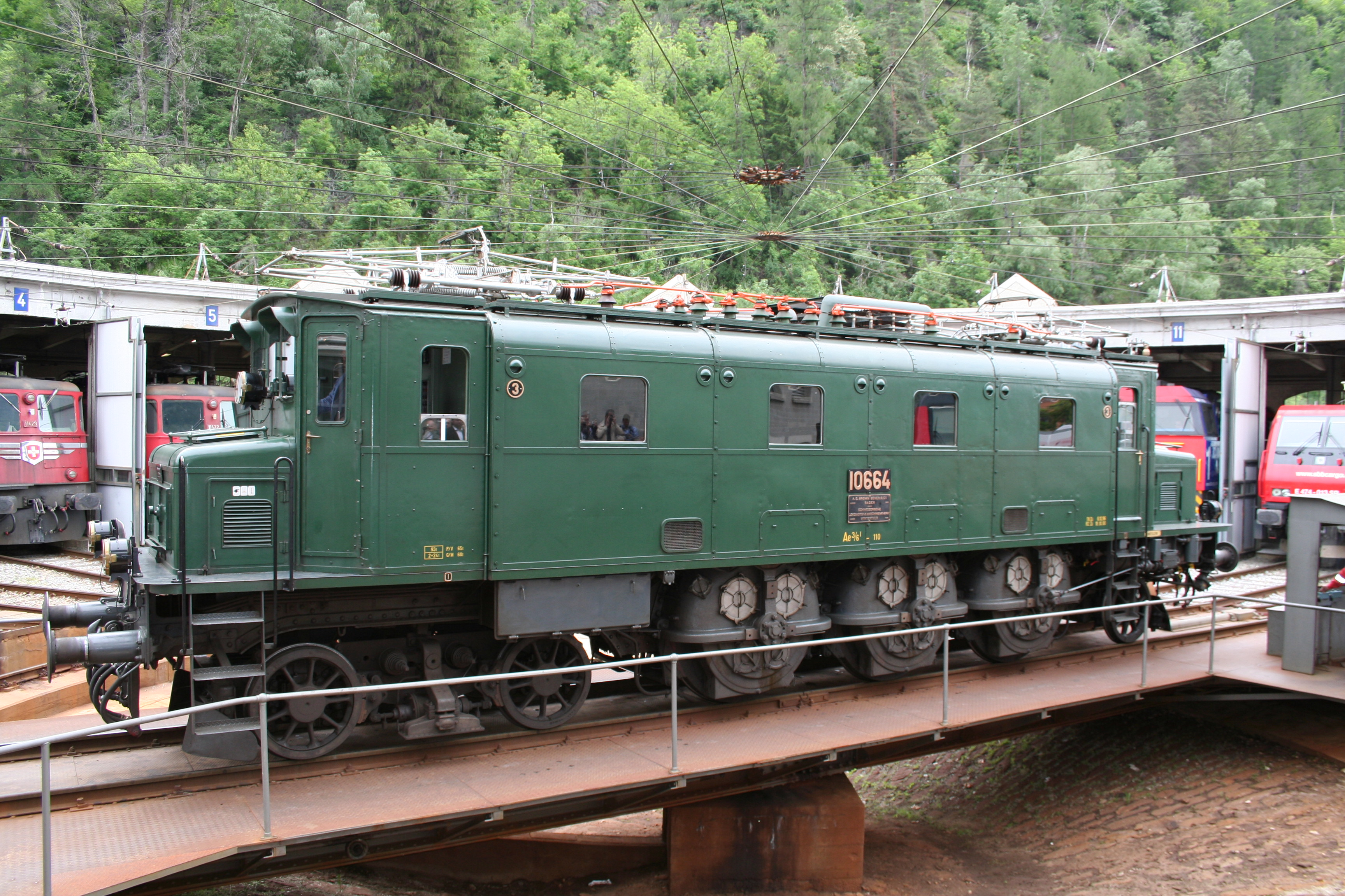 SBB Ae 3/6 I on the turntable at Brig station, on the occasion of the 100 years Simplon tunnel jubilee. Note the covers of the three Buchli drives